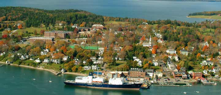 Maine Maritime Academy